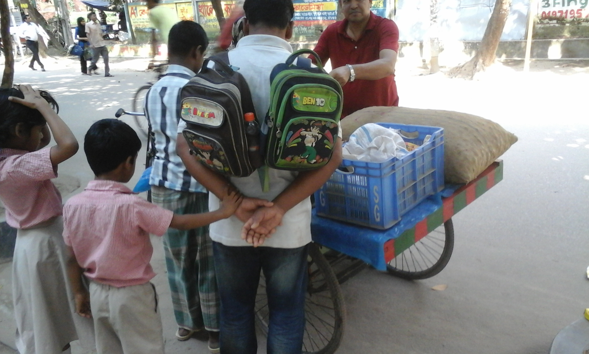 Bangladeshi father with son & daughter